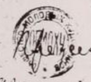 OBMOKhU seal by Vladimir Stenberg from a document, dated October 28, 1920.